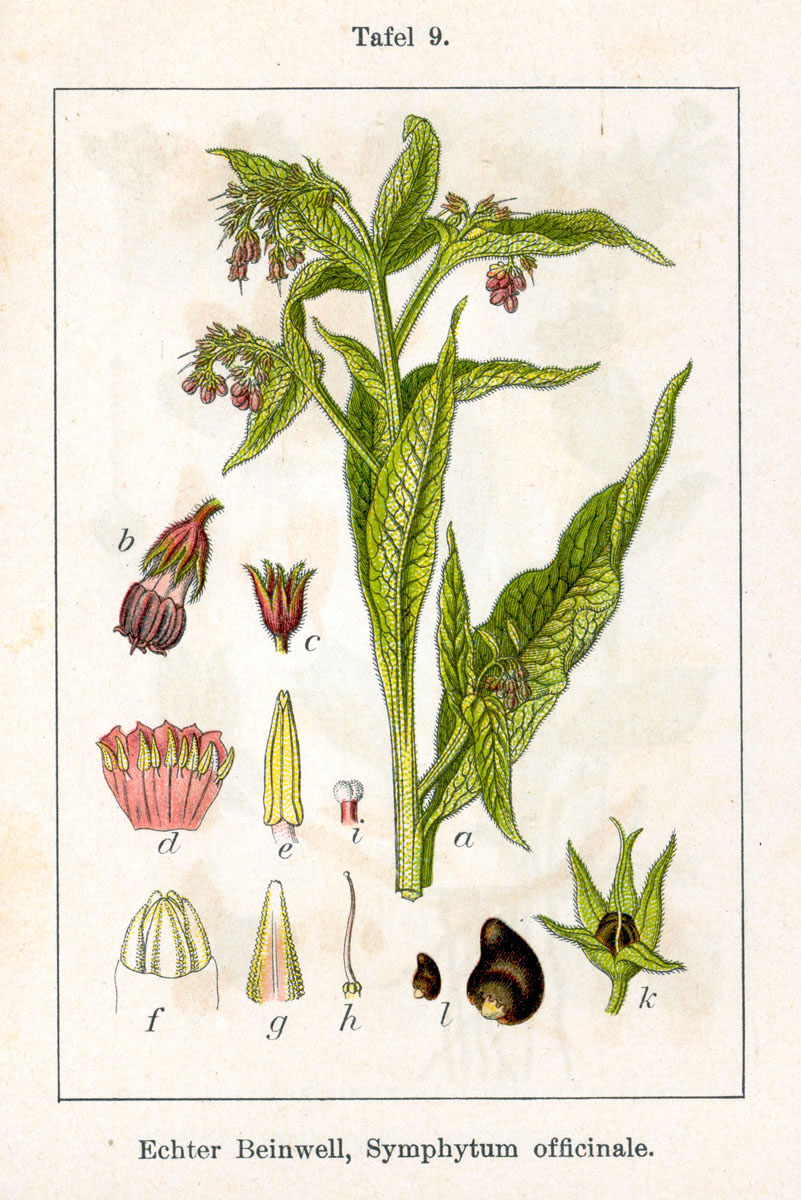 Symphytum officinale L. s. l. Original Description Echter Beinwell, Symphytum officinale